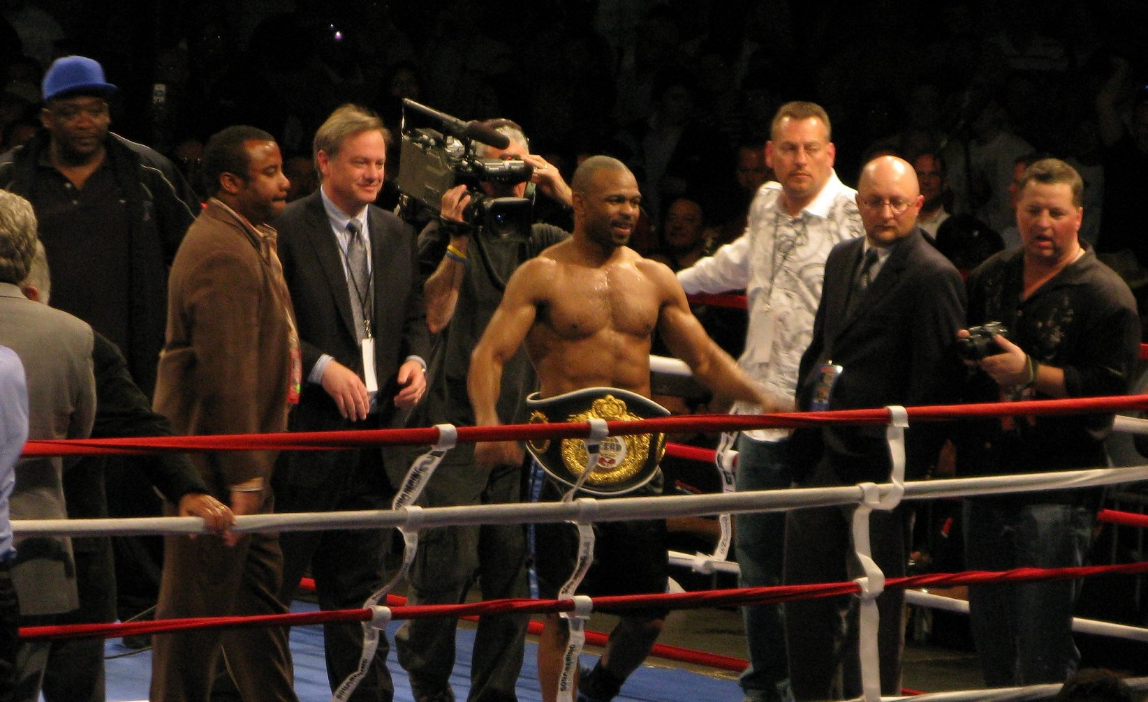 Roy Jones